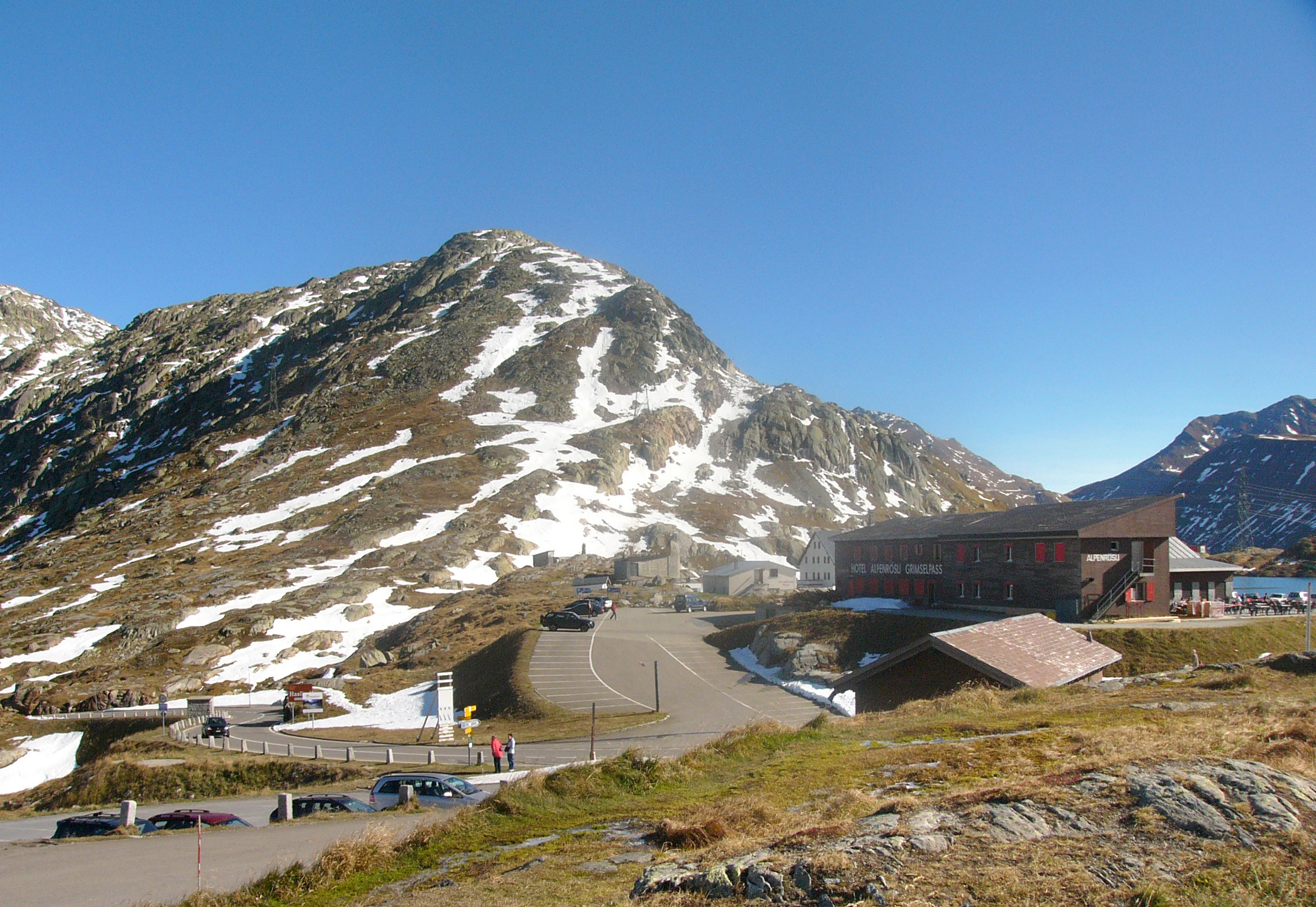 View to the summit of the 2165 m high Grimsel Pass in Switzerland.